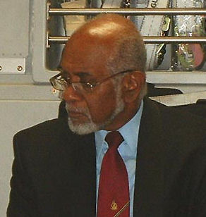 Vanuatu President Kalkot Mataskelekele at a repatriation ceremony for U.S. military personnel killed in Vanuatu during World War II. The ceremony took place in Luganville, Espiritu Santo, Republic of Vanuatu on July 31, 2009.